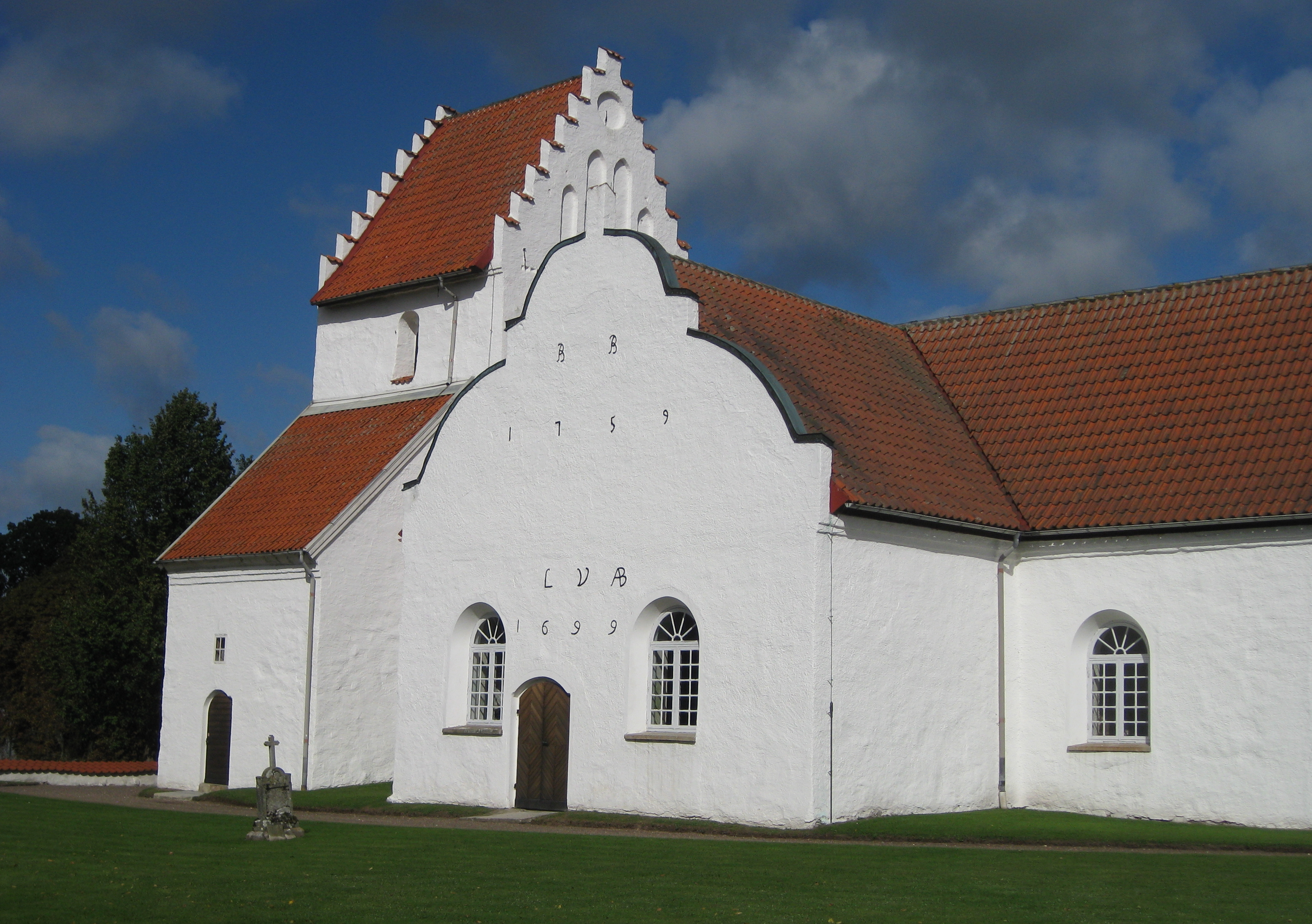 Sövde church in Scania, Sweden